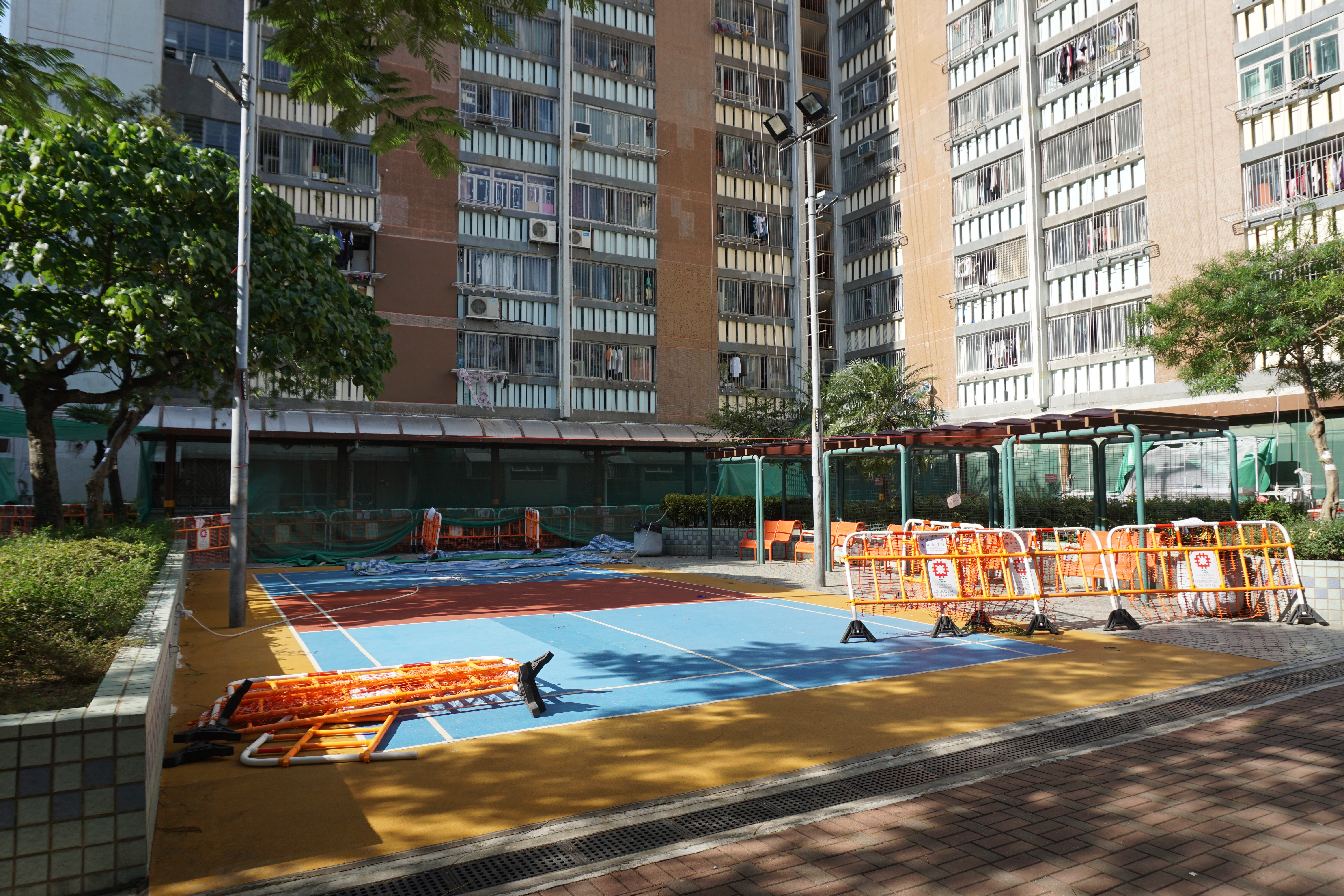 Wu King Estate in Tuen Mun, Hong Kong.